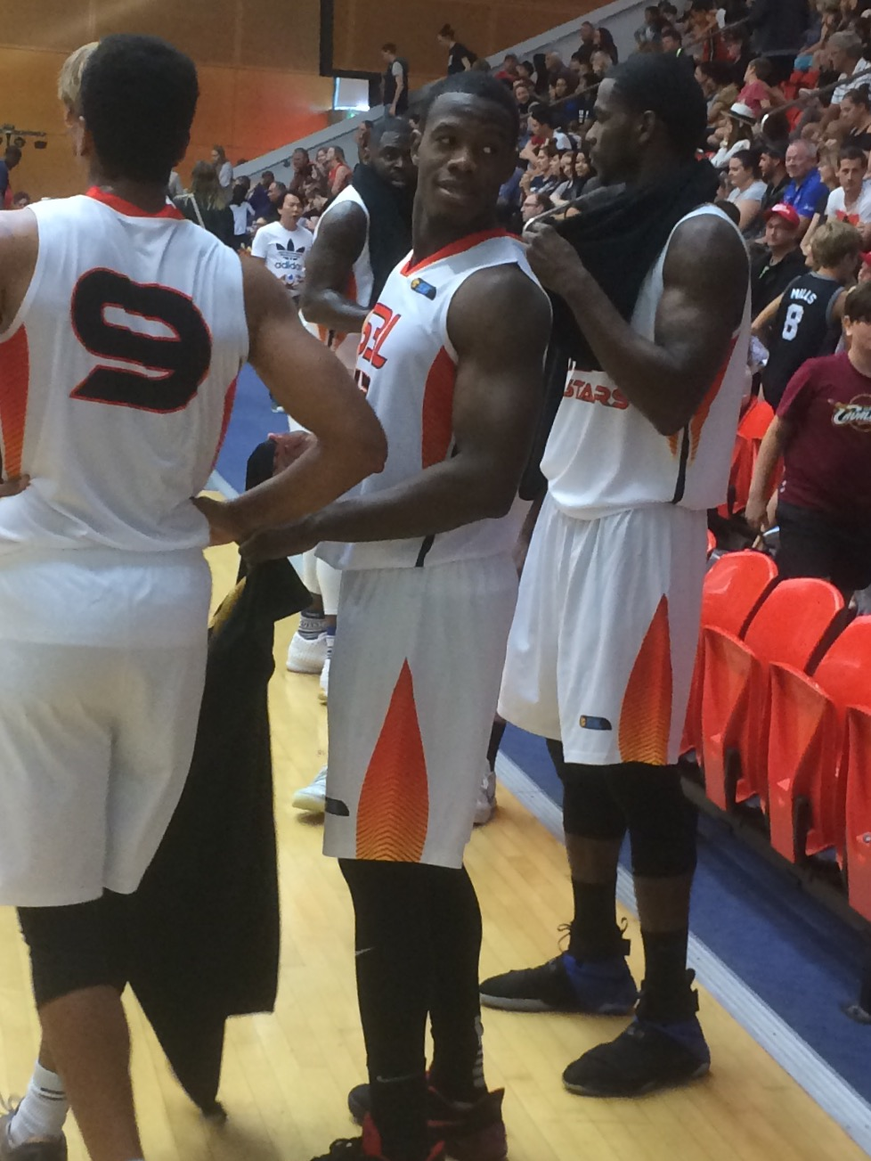 Jay Bowie with the SBL's South All-Stars